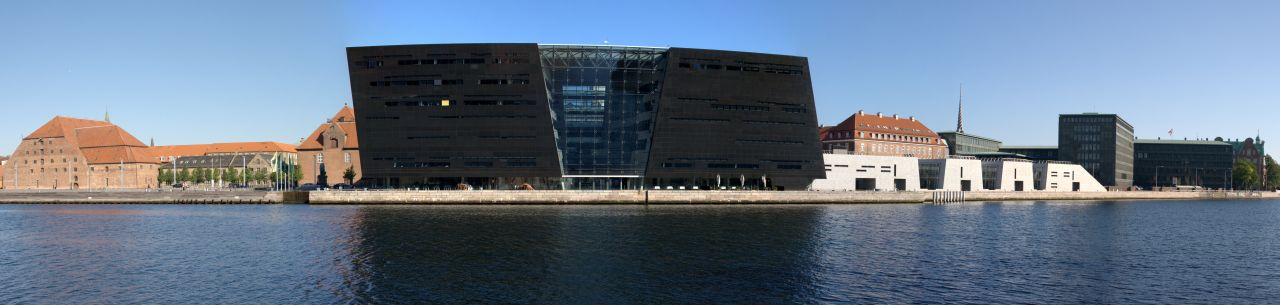 Christians Brygge - the quarter of Slotsholmen facing the main harbour canal - with the Black Diamond, the Tøjhus Museum and Christian IV's Brew House, in Copenhagen, Denmark